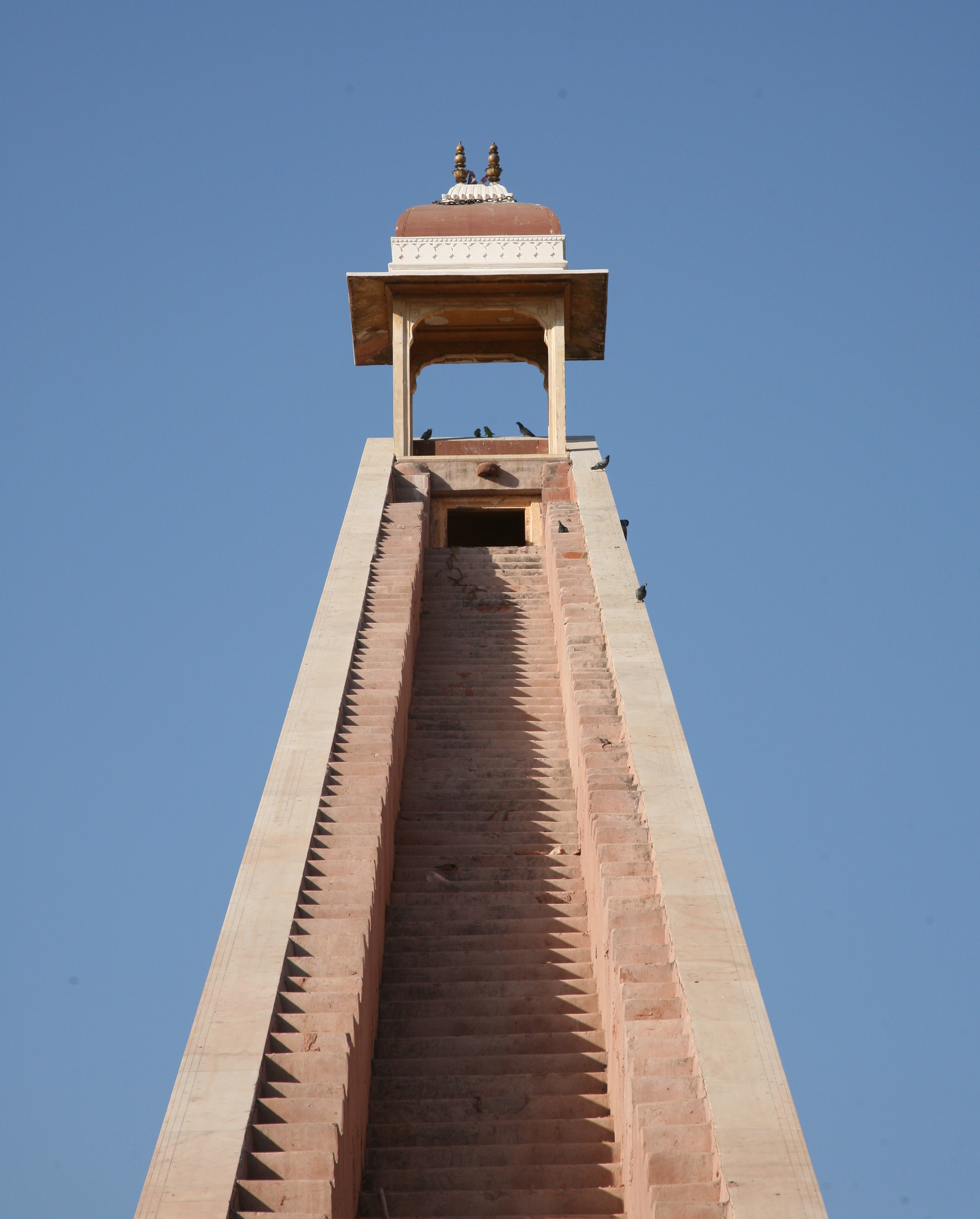 From Jantar Mantar in Jaipur. The top of the Samrat Yantra, the largest sundial in the world.